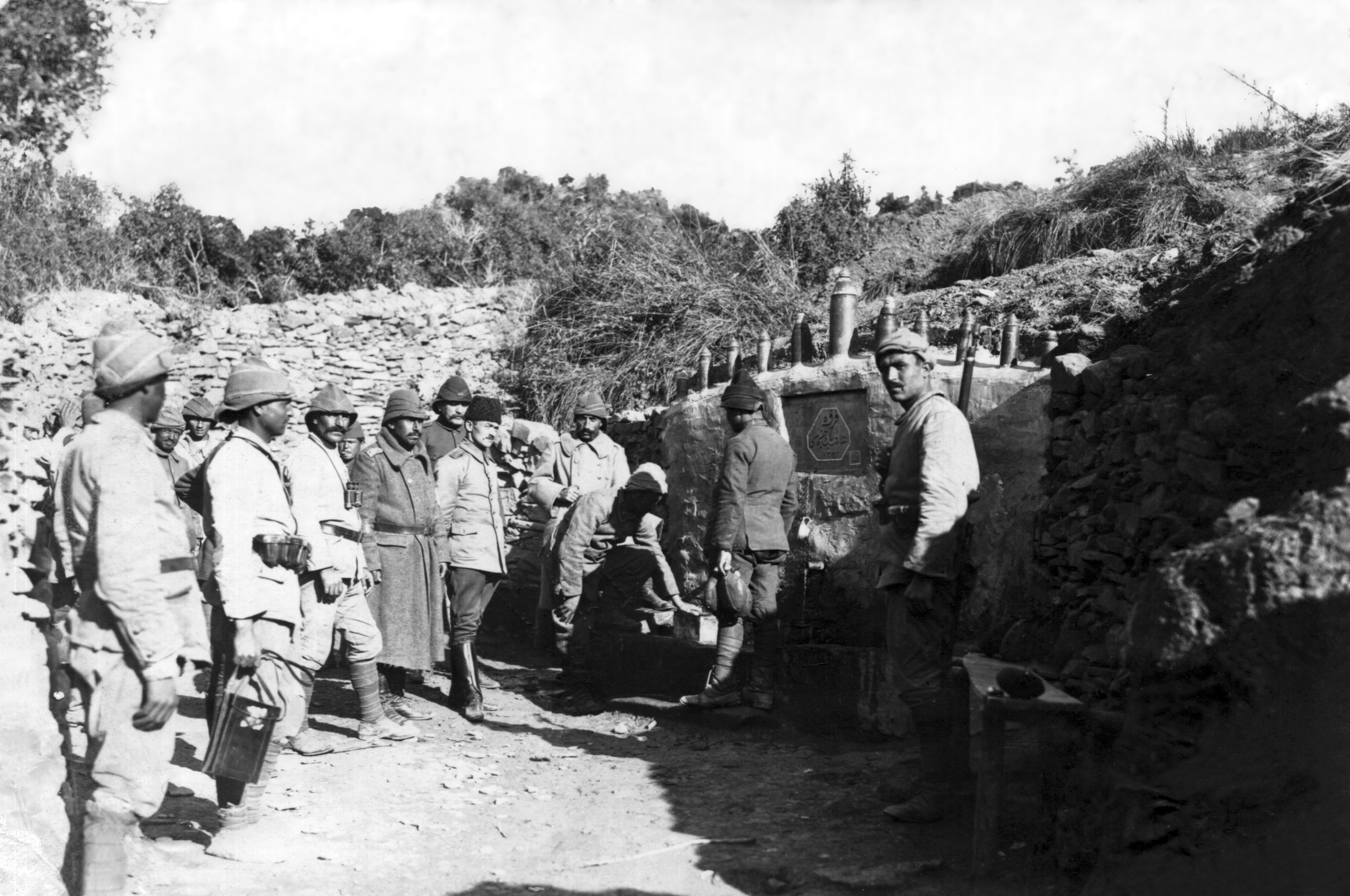 Arif Bey Fountain